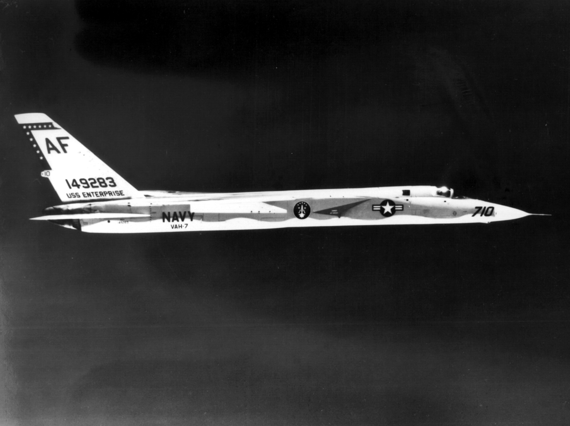 A North American A-5A Vigilante bomber (BuNo 149283) of Heavy Attack Squadron VAH-7 "Peacemakers of the Fleet", Carrier Air Group 6 (CVG-6), assigned to the U.S. aircraft carrier USS Enterprise (CVAN-65) in 1962. This aircraft was later converted to an RA-5C and shot down by flak on 18 May 1968 over Vietnam while being assigned to Heavy Reconnaissance Squadron RVAH-11 "Checkertails", Attack Carrier Air Wing 11 (CVW-11), aboard the USS Kitty Hawk (CVA-63). The pilot ejected and became a prisoner of war, the radar attack navigator was killed (for details of this loss see [1]).